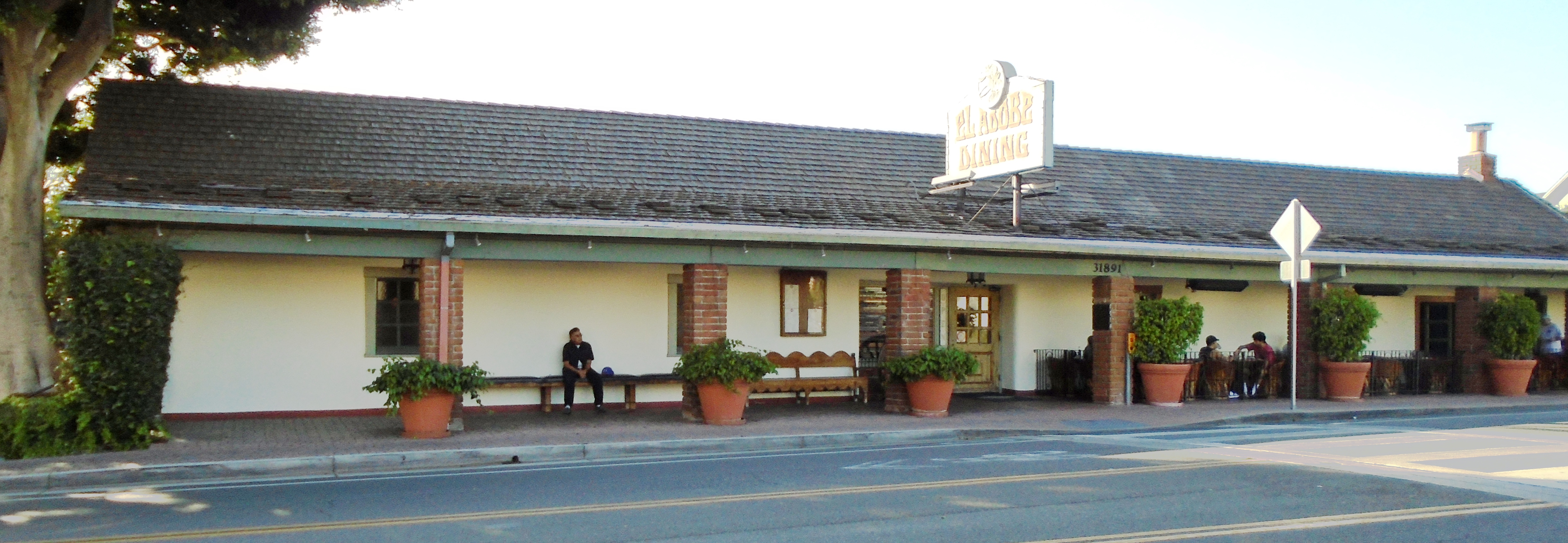 El Adobe de Capistrano is a restaurant located at 31891 Camino Capistrano in San Juan Capistrano, California. The building was orignally two adobes, the northern one was built in 1797 as the home of Miguel Yorba, and the southern one was established in 1812 as the the Juzgado (court and jails); it was also used as a post office, store, and stage depot. In 1910, Harry and Georgia Mott Vander Leck joined the two adobe buildings together, and added wings to each, to be their residence and store. The El Adobe restaurant was opened in the building in 1948 by Clarence Brown. The building was remodeled in 2003. The restaurant was a favorite of President Richard Nixon, a resident of nearby San Clemente. (Sources: San Juan Capistrano Historical Society and restaurant website)